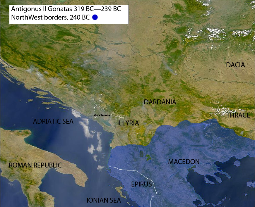 Antigonus II Gonatas, northern border at 240 bc A History of Macedonia: 336-167 B.C By Nicholas Geoffrey Lemprière Hammond, Frank William Walbank,1988,ISBN-0198148151 Blank map,nasa